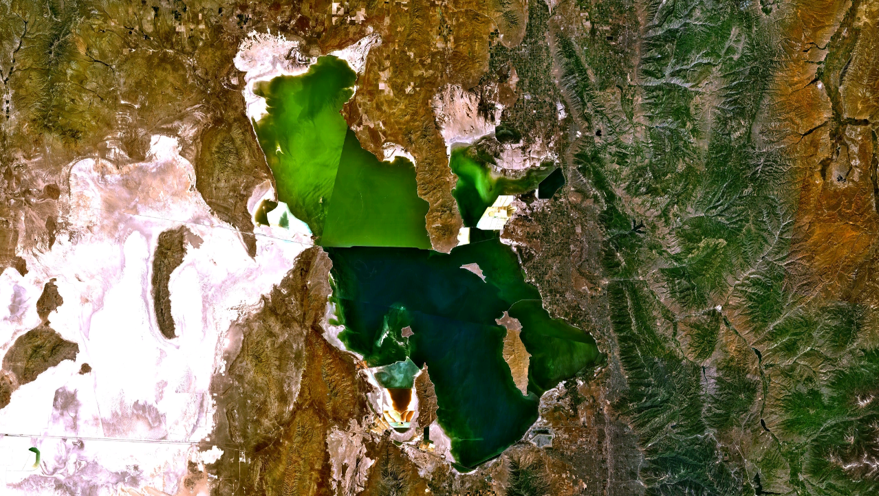 The Great Salt Lake, Utah, as seen in World Wind.